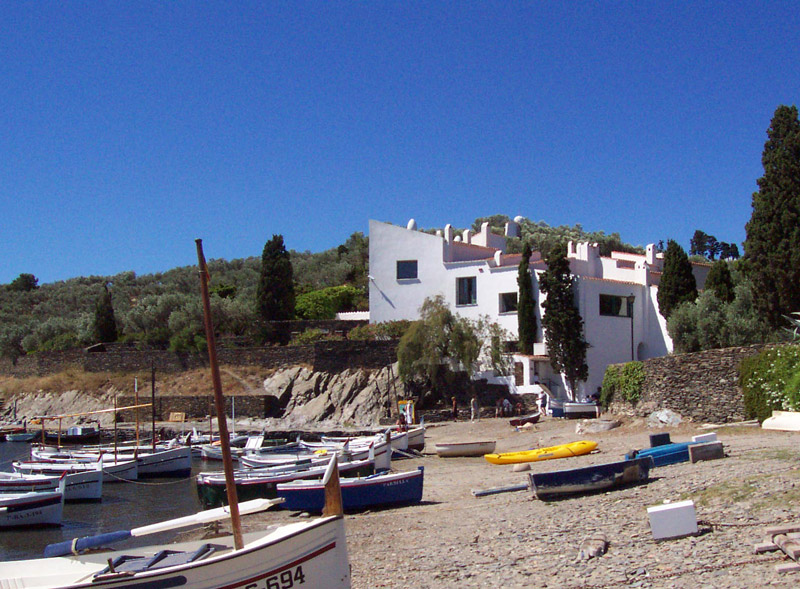 The former house of Salvador Dali at Port Lligat (Casa-Museu_Salvador_Dalí)